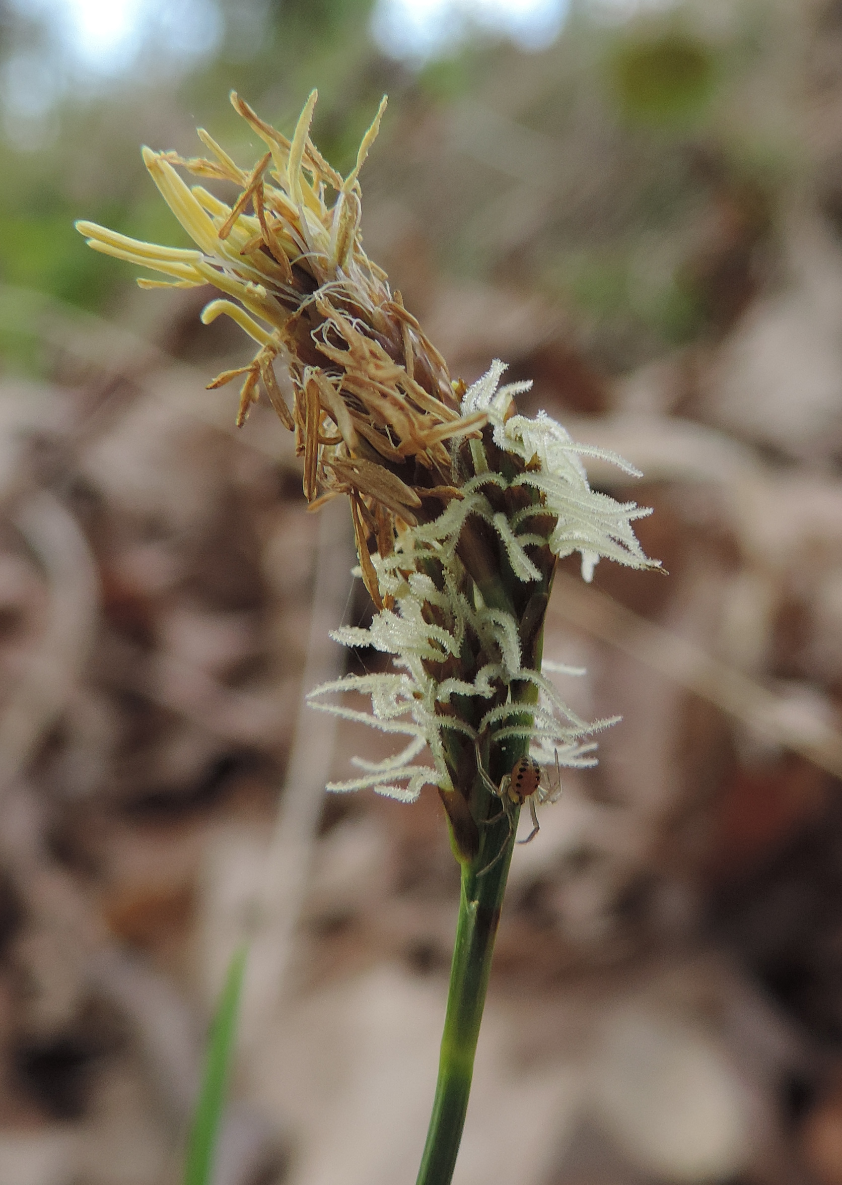 Carex caryophyllea. Inflorescense. Ośno Lubuskie (W Poland)